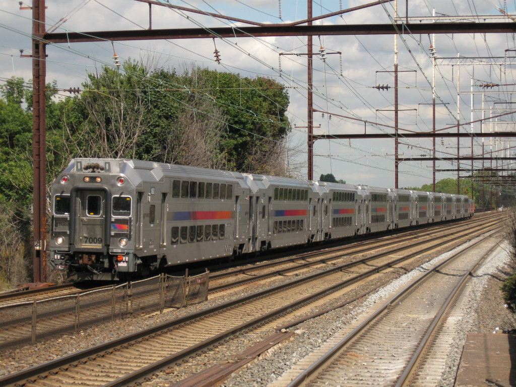 New Jersey Transit train #3945, composed entirely of vehicles made by Bombardier Transportation (10 Bombardier multi-level vehicles pushed by a Bombardier ALP-46) enters the New Brunswick train station on the Northeast Corridor line.